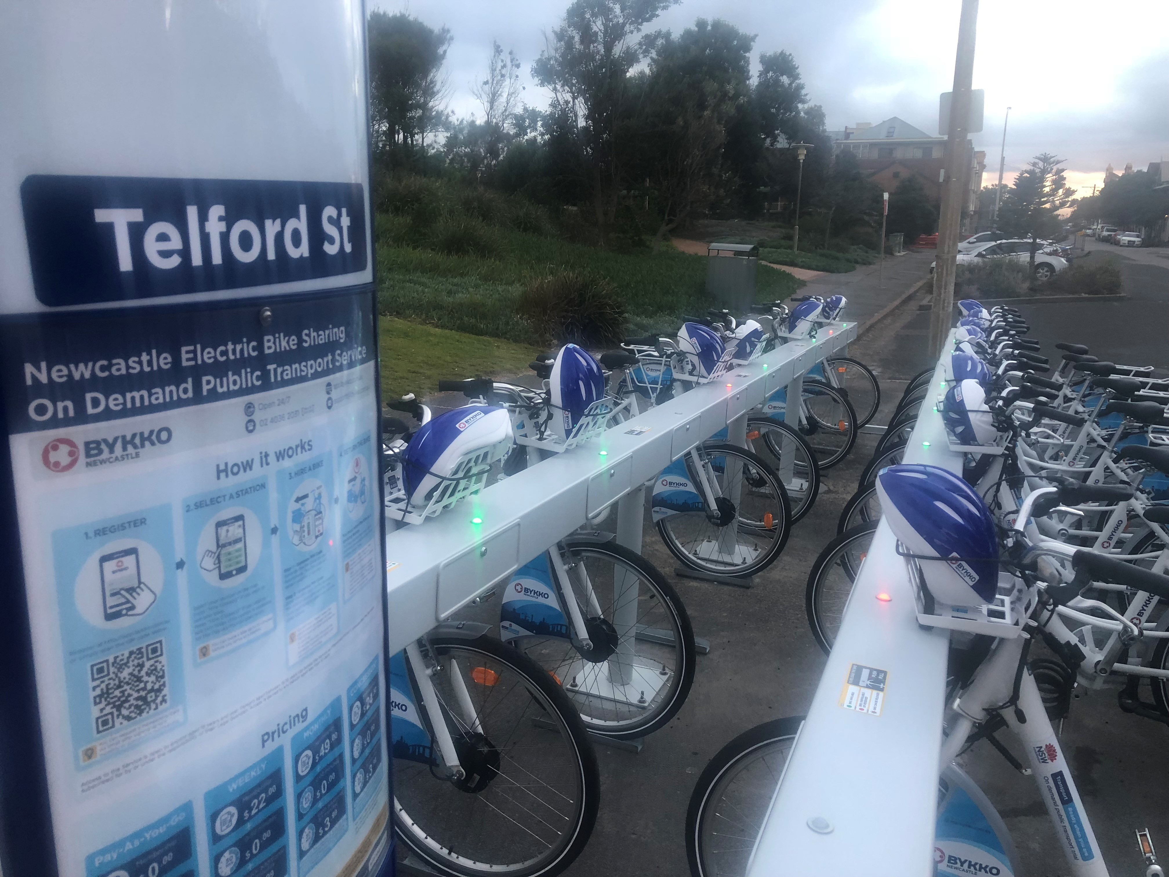 One of 19 docking stations across Newcastle CBD.